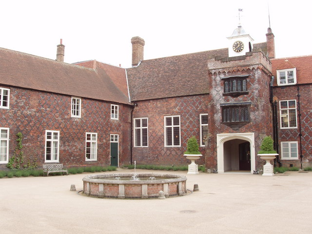 Fulham Palace courtyard The palace was built in 1495. The palace was the country home of bishops of London from the 11th century. It is grade one listed, and is now in the care of Hammersmith and Fulham Council and the Fulham Palace Trust . In the Royal Institute of Chartered Surveyors London Awards 2008 recent lottery-funded restoration work was Winner in the Building Conservation Category and Runner Up in the Overall Category.